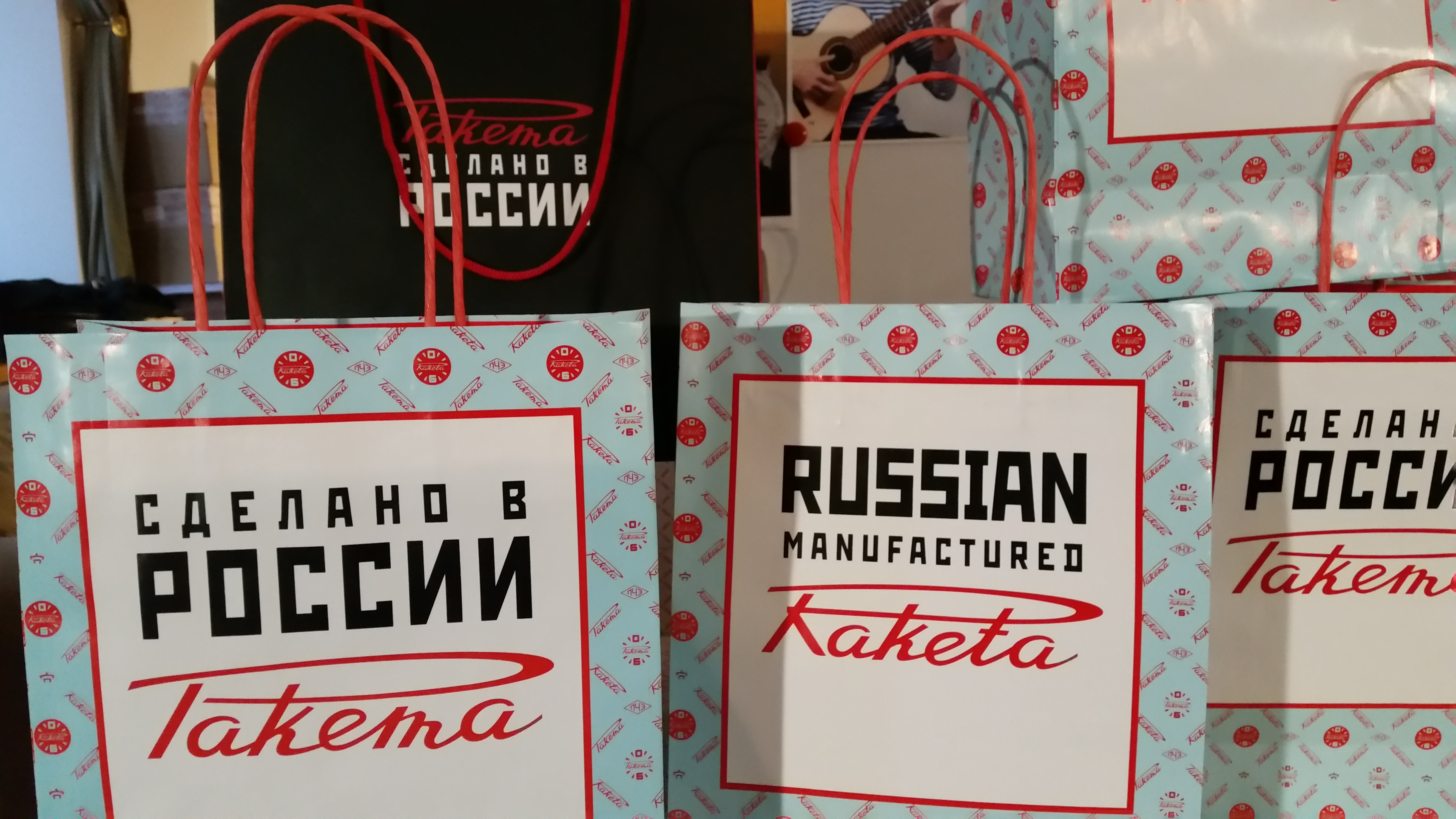 "Made in Russia" printed on a "Raketa" shoping bag